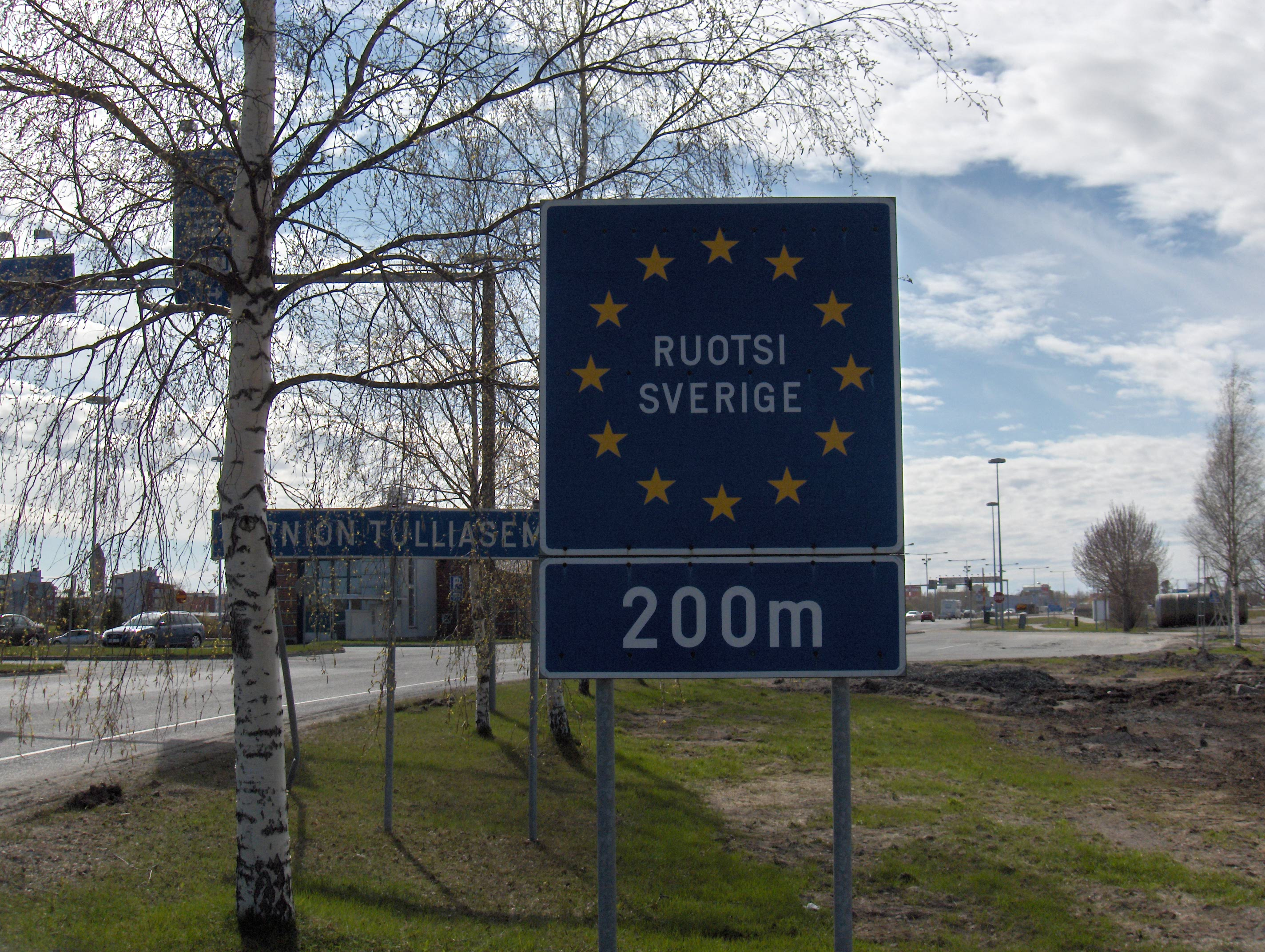 Border sign: 200 metres to Swedish frontier, outside Tornio customs station, Finland